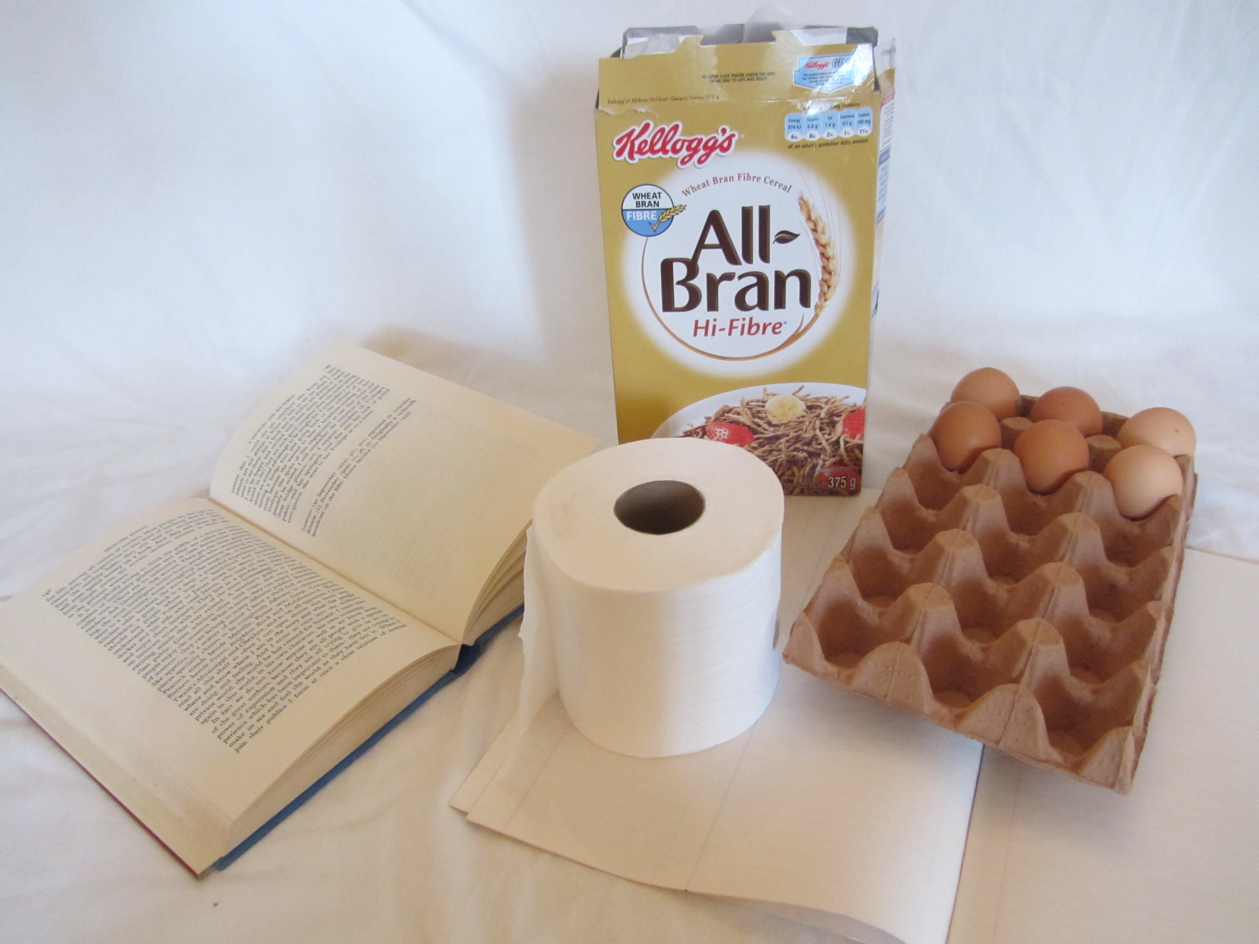 Various products made from paper